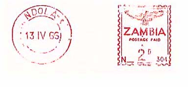 Meter stamp catalog image, Zambia Type C1